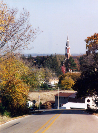 View of Sherrill, Iowa from Sherrill's Mound. Photo by Joe Schallan.